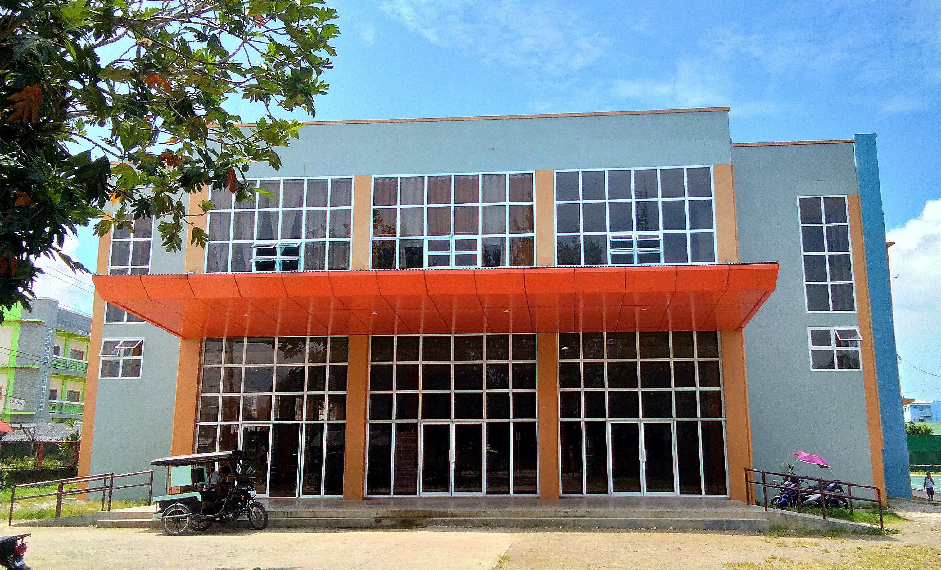 Guiuan Gymnasium in 2019